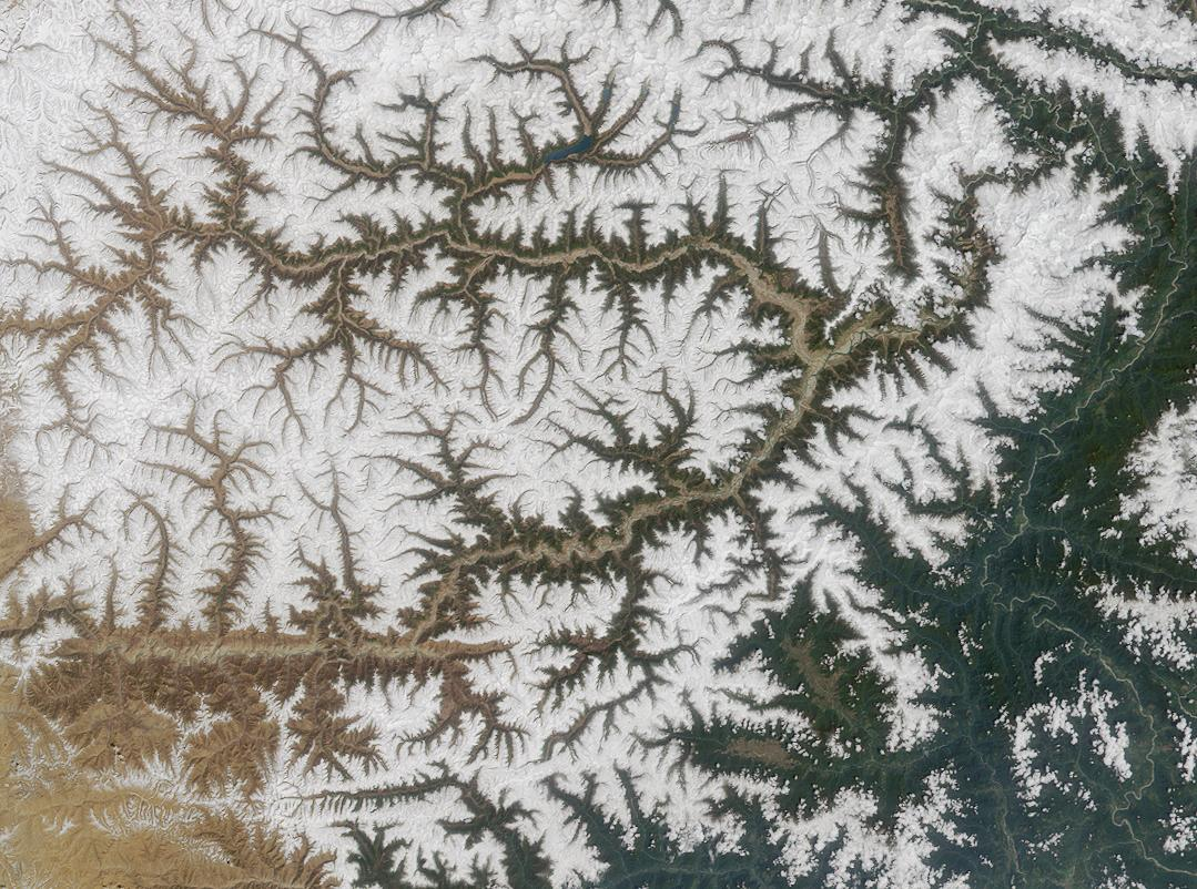 The mighty river featured in this image is called the Yarlung Tsangpo as it courses through the Tibetan Autonomous Region of China, and is then known as the Dikrong during its passage through India's state of Arunachal Pradesh. Further downstream, the river widens and becomes the Brahmaputra. Its waters eventually empty to the Bay of Bengal.